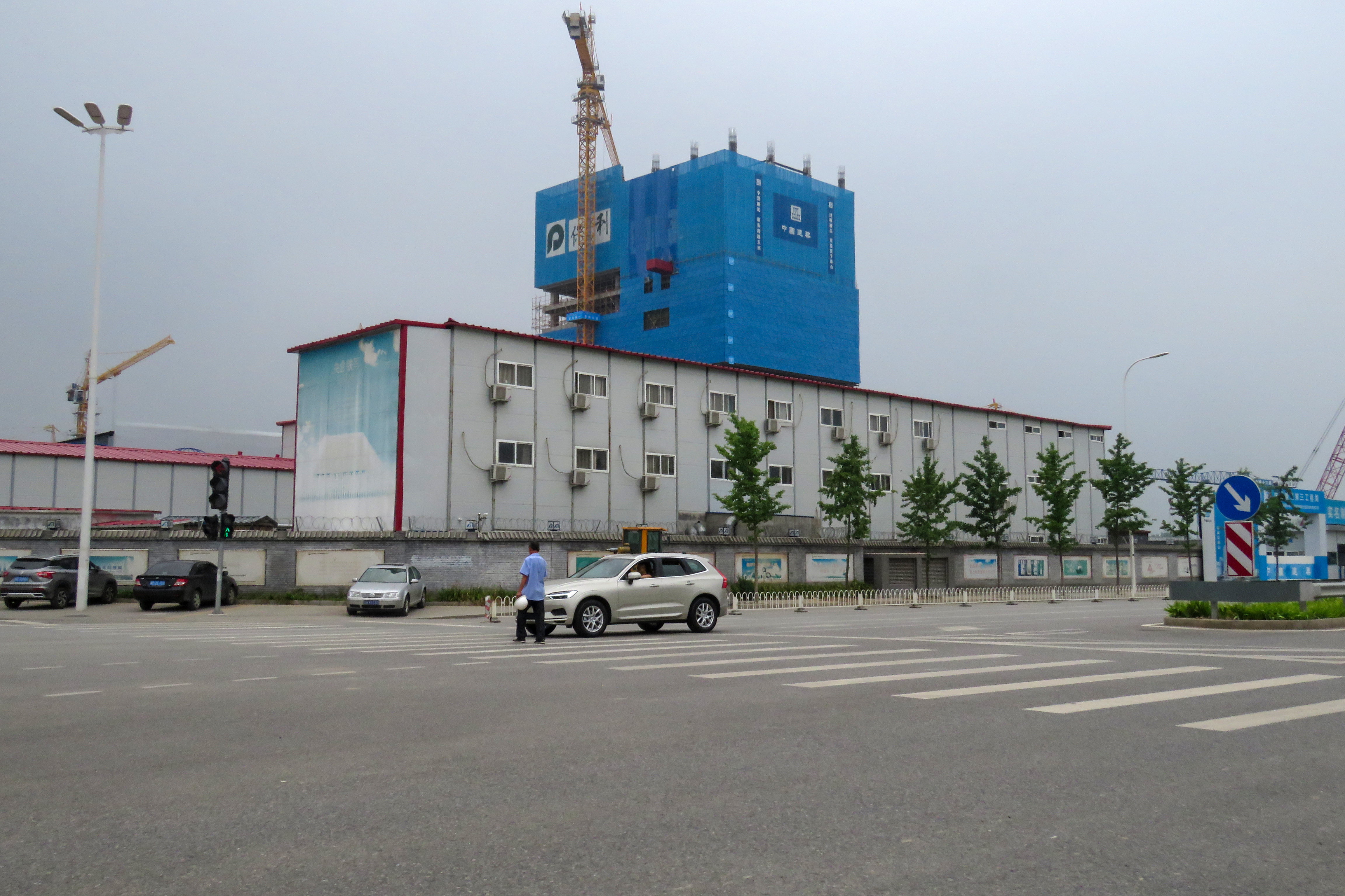 It is said to be the longest station in Beijing Subway system.